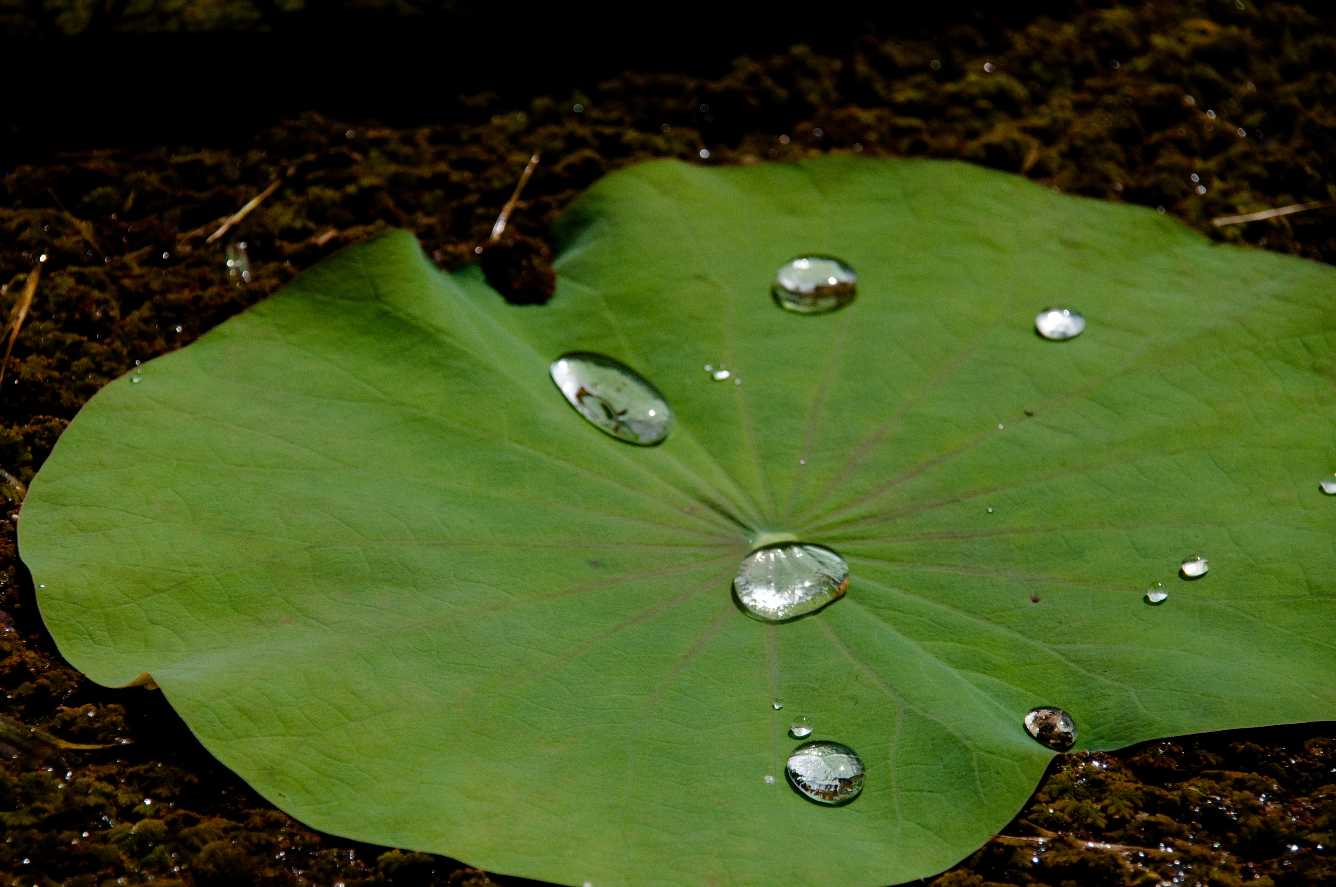 Lotus leaf with waterdrops, showing the 'Lotus-effect'